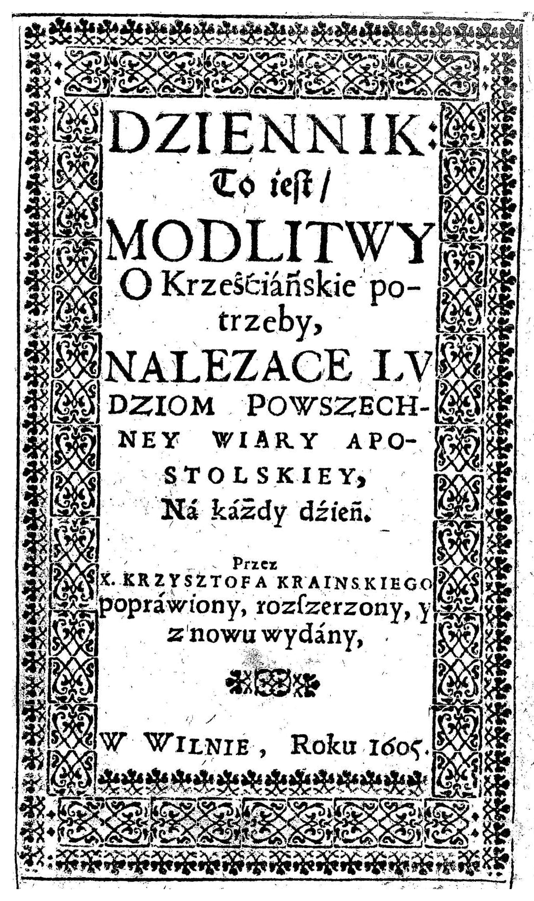 Krzysztof Kraiński, "Dziennik, to iest modlitwy o krześćiańskie potrzeby, nalezace ludziom powszechney wiary apostolskiey, na każdy dźień", Wilno 1605